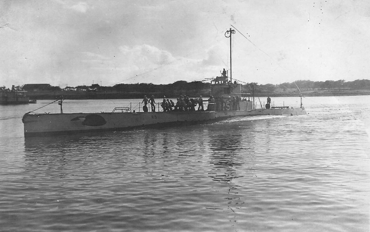 US Navy submarine USS R-5 (SS-82) entering harbor in the Territory of Hawaii.